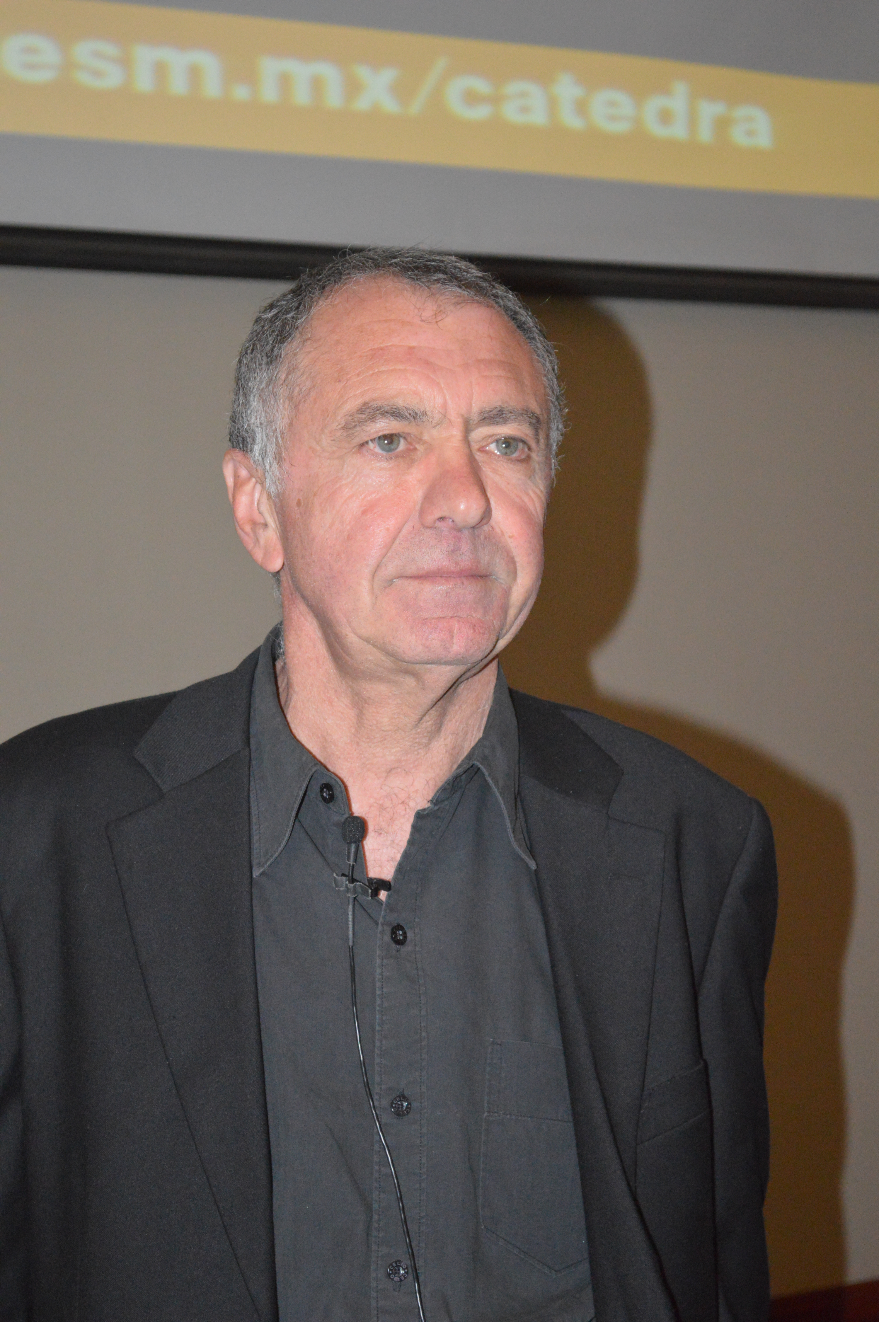 Gilles Lipovetsky after a presenation at the Tec de Monterrey, Campus Ciudad de MexicoCampus Ciudad de Mexico